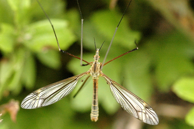 Tipula vernalis from Commanster, Belgian High Ardennes .